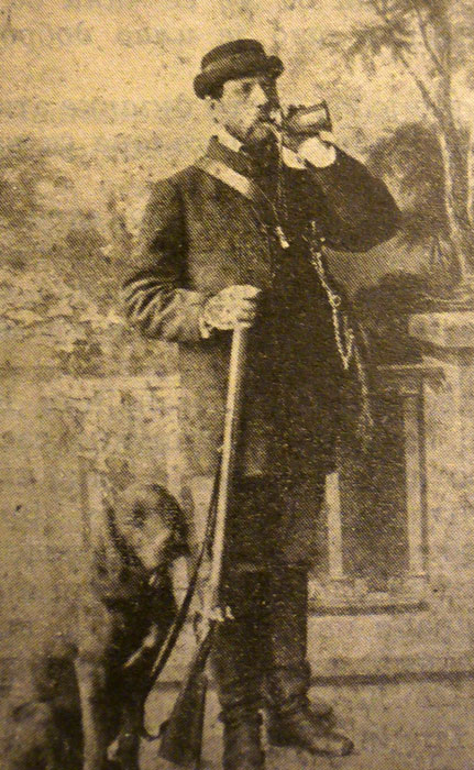 Auguste Dozon